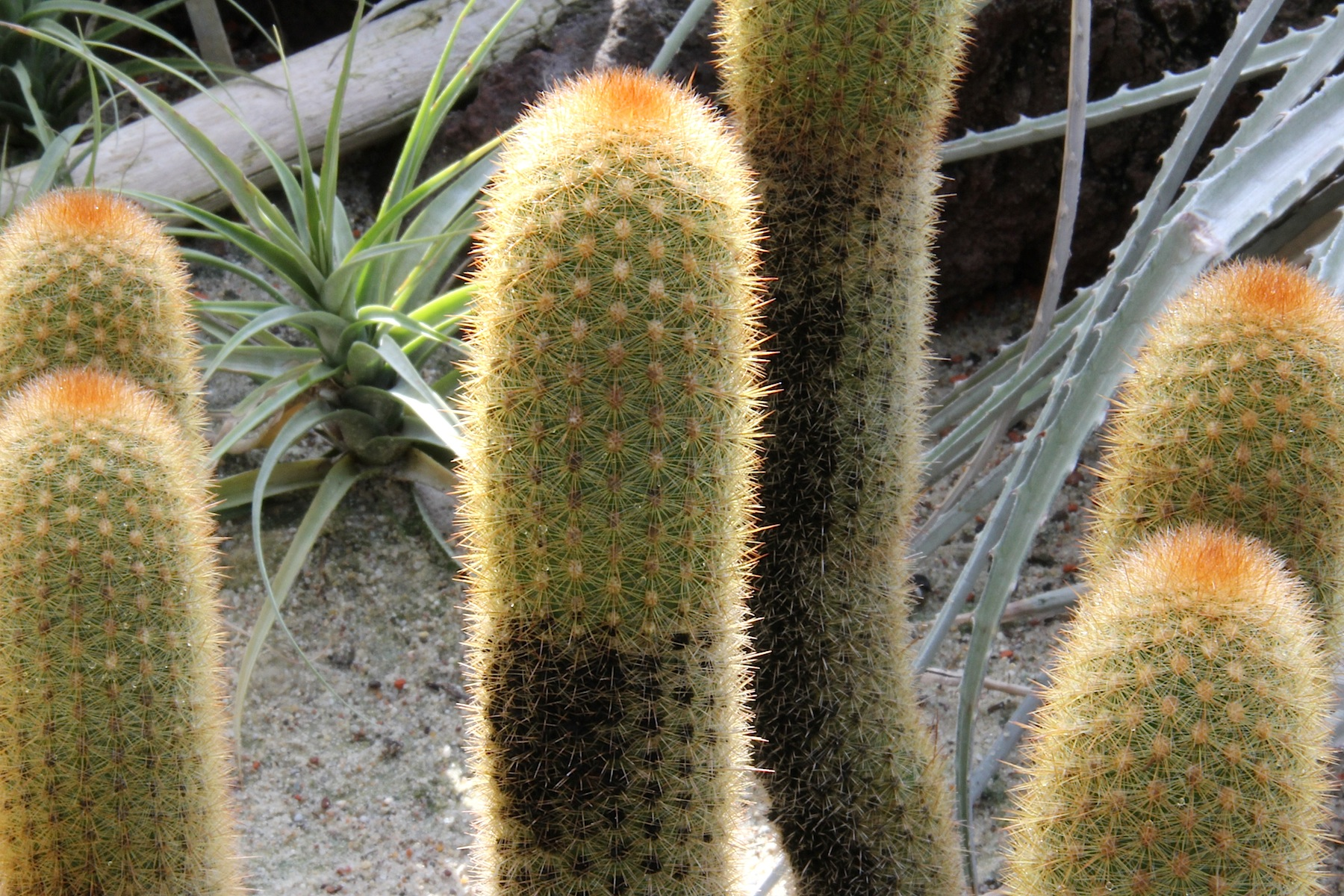 Haageocereus pseudomelanostele ssp. aureispinus